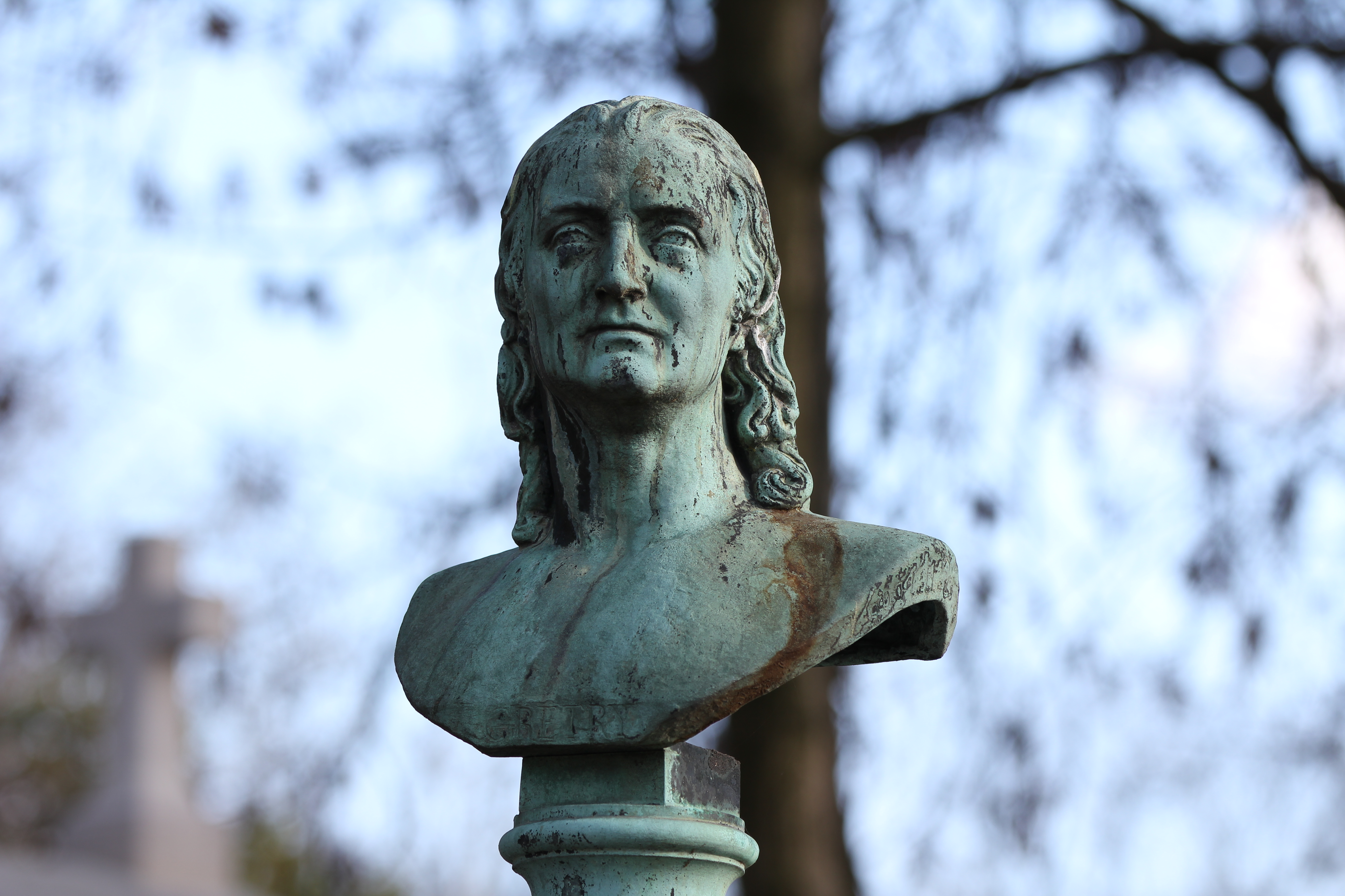 bust